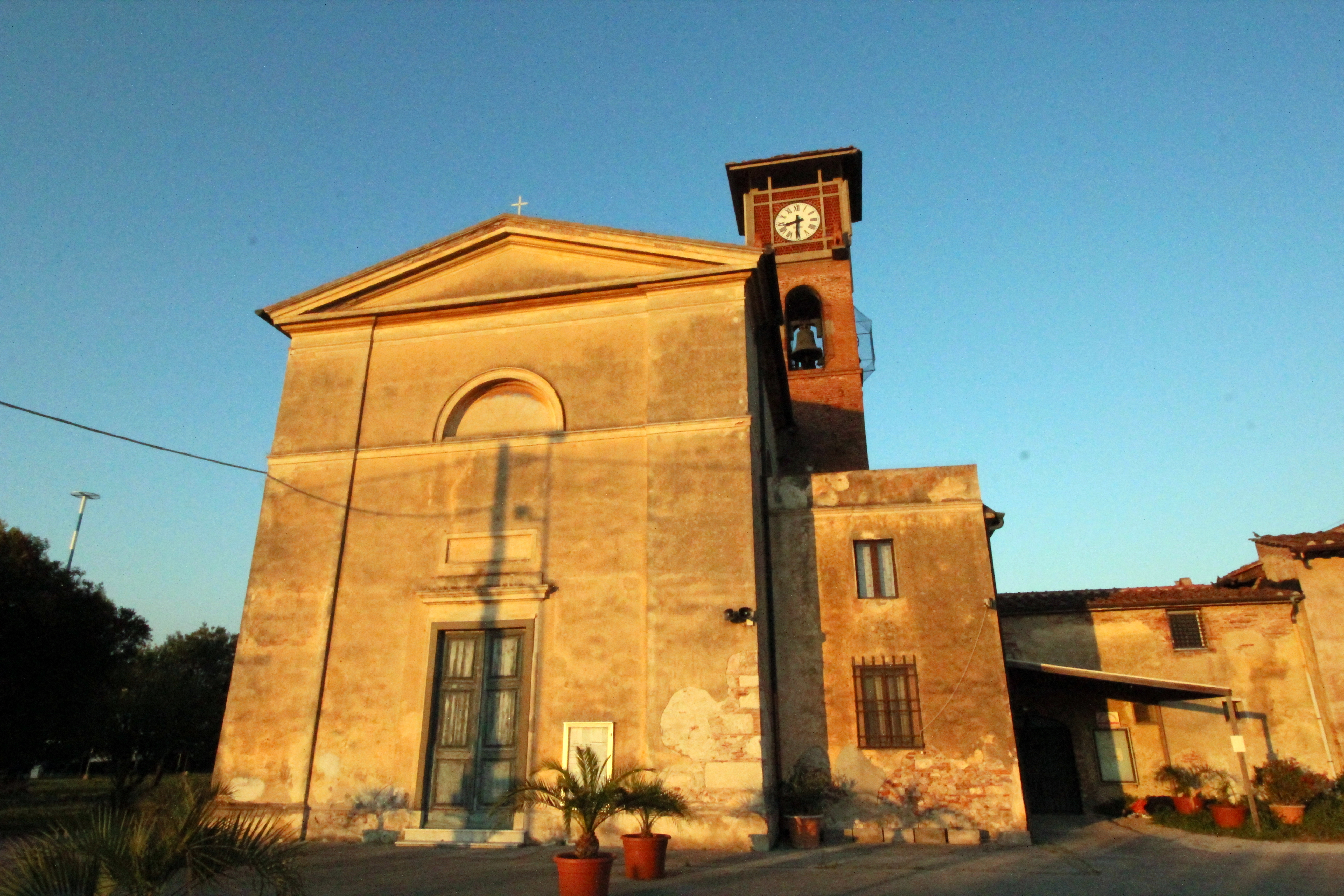 Church San Jacopo in Metato, in Arena Metato, hamlet of San Giuliano Terme, Province of Pisa, Tuscany, Italy